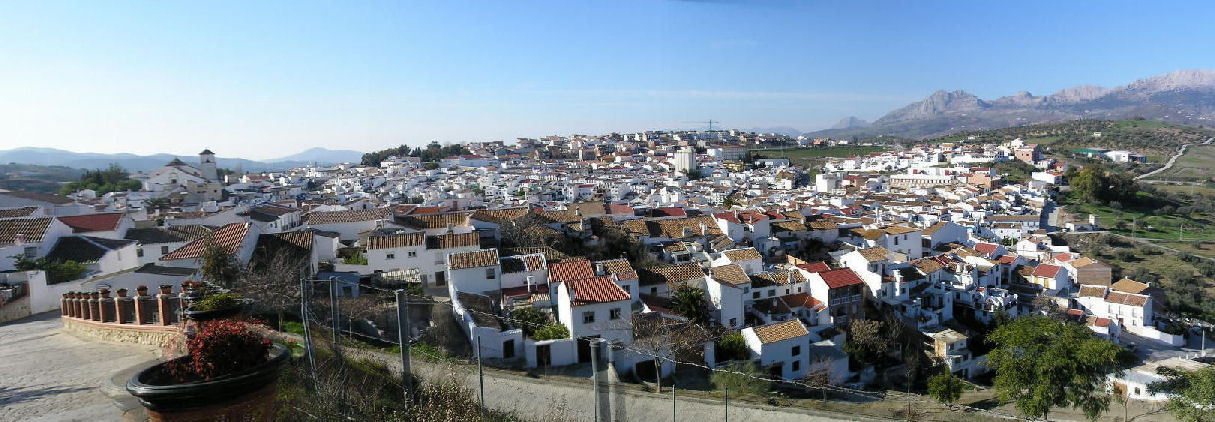 Expanded licensing permission and contact information for the photographer are specified below. Robert Andrews Blog photograh, (OLD LINK) The link to Robert's new blog page is: Licensing Robert Andrews, owner of and photographer of the original photos, gives permission for all use private and commercial of this LOW RESOLUTION photograph as described in the Wiki GNU Licensing scheme. This panoramic shot is a composite of several high-resolution photographs. The actual panoramic shot shows a wider field of view on both sides. For purposes of proper display in WikiPedia, the shot above has been cropped slightly. This photograph was manually spliced together using Paint Shop Pro. The untouched original high resolution photographs, and the higher resolution spiced photograph are available for private or commercial use through arrangements with the owner and photographer. Please contact Robert at .